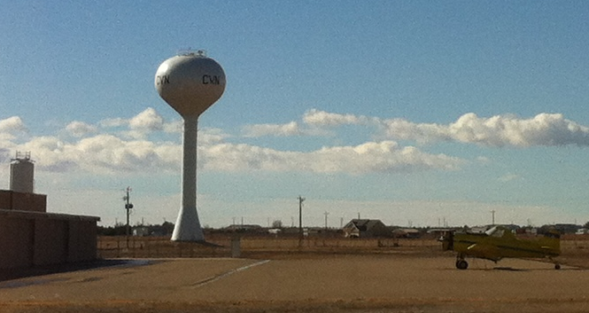 Water tower at Clovis, NM airport, with airport code CVN